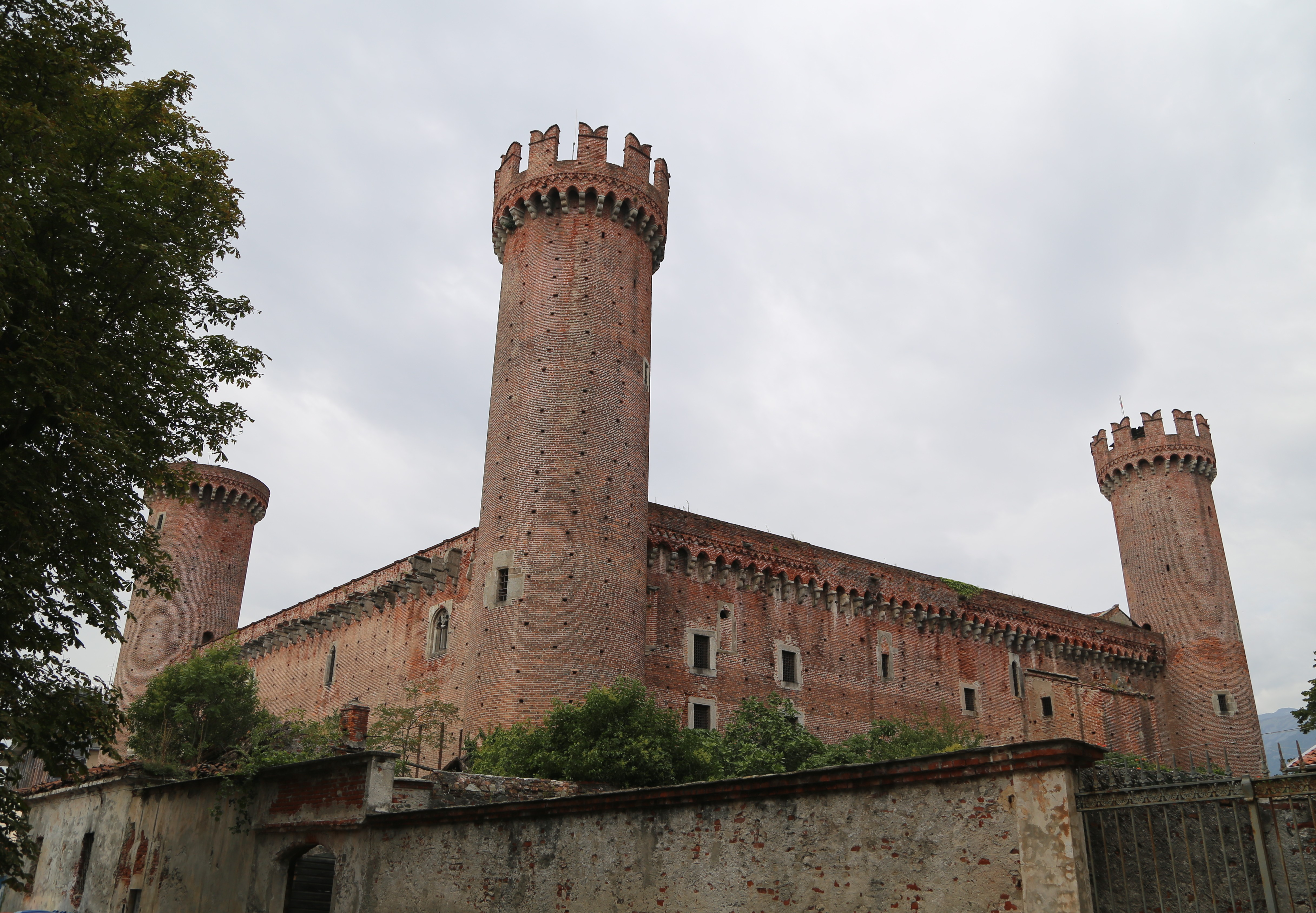 Castello di Ivrea, Piemont